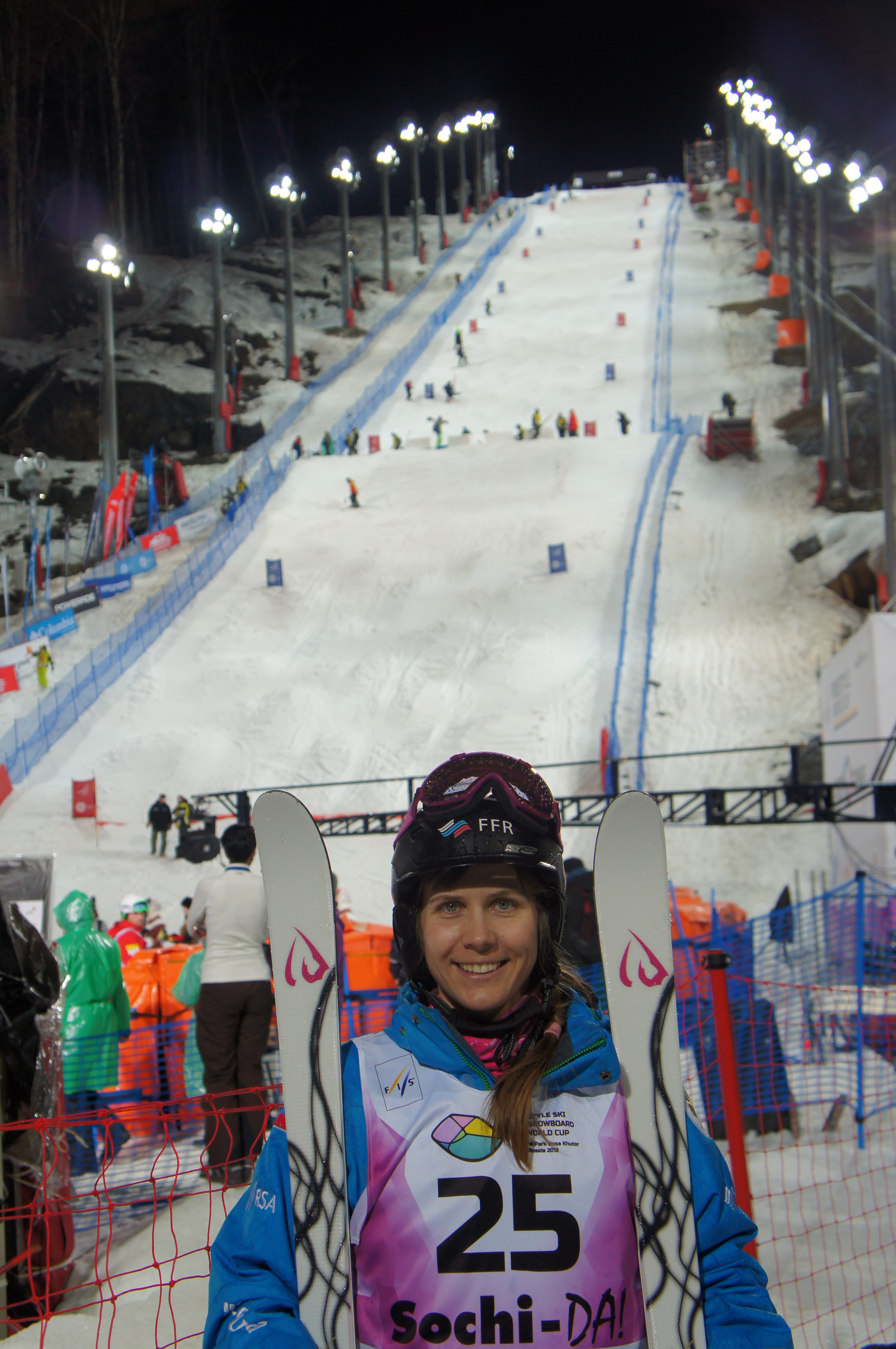 Elena Muratova on World Сup 2013 in Sochi